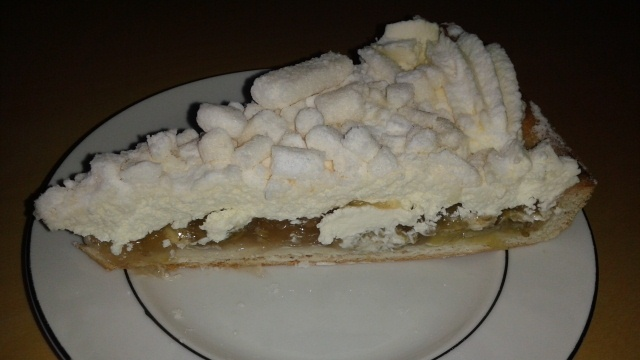 Real Limburgian gooseberry vlaai with meringue. Limburgs: Krosjelevlaai (staekbeerevlaai) mit sjoem.